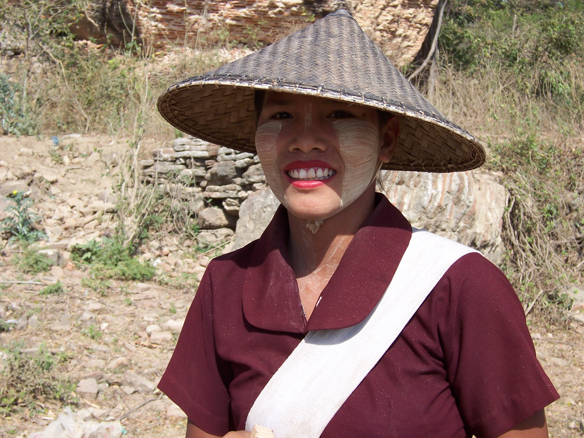 Burmese girl painted with thanaka. Burmese women smear their faces, and their children's, with thanaka. This is the bark of a plant which is ground into a paste with water and applied onto the face. It is said to protect the skin against the sun - and it lightens the colour of the face. The picture was taken in February, 2005. The girl was selling jade necklaces for tourists at the Unfinished Stupa (Mingun Phaya) in Myanmar.